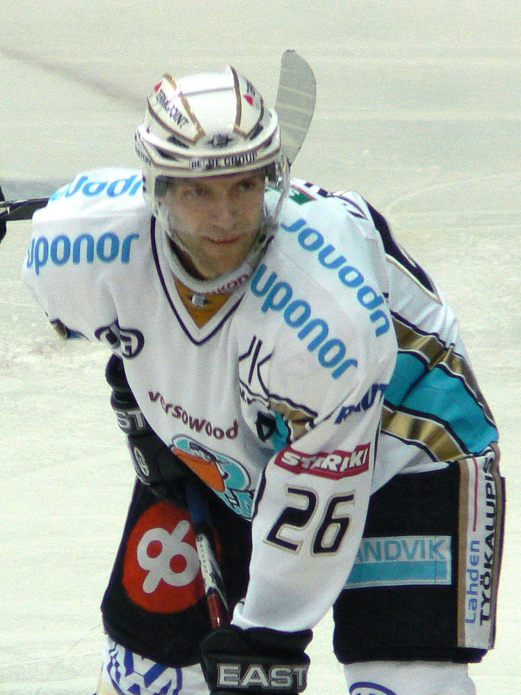 Finnish ice hockey defenseman Jan Latvala playing for Pelicans Lahti in September, 2008.